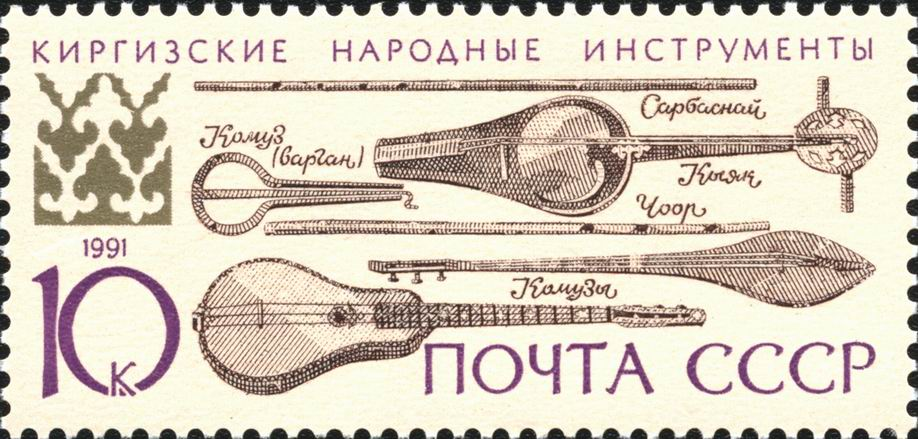 A USSR stamp